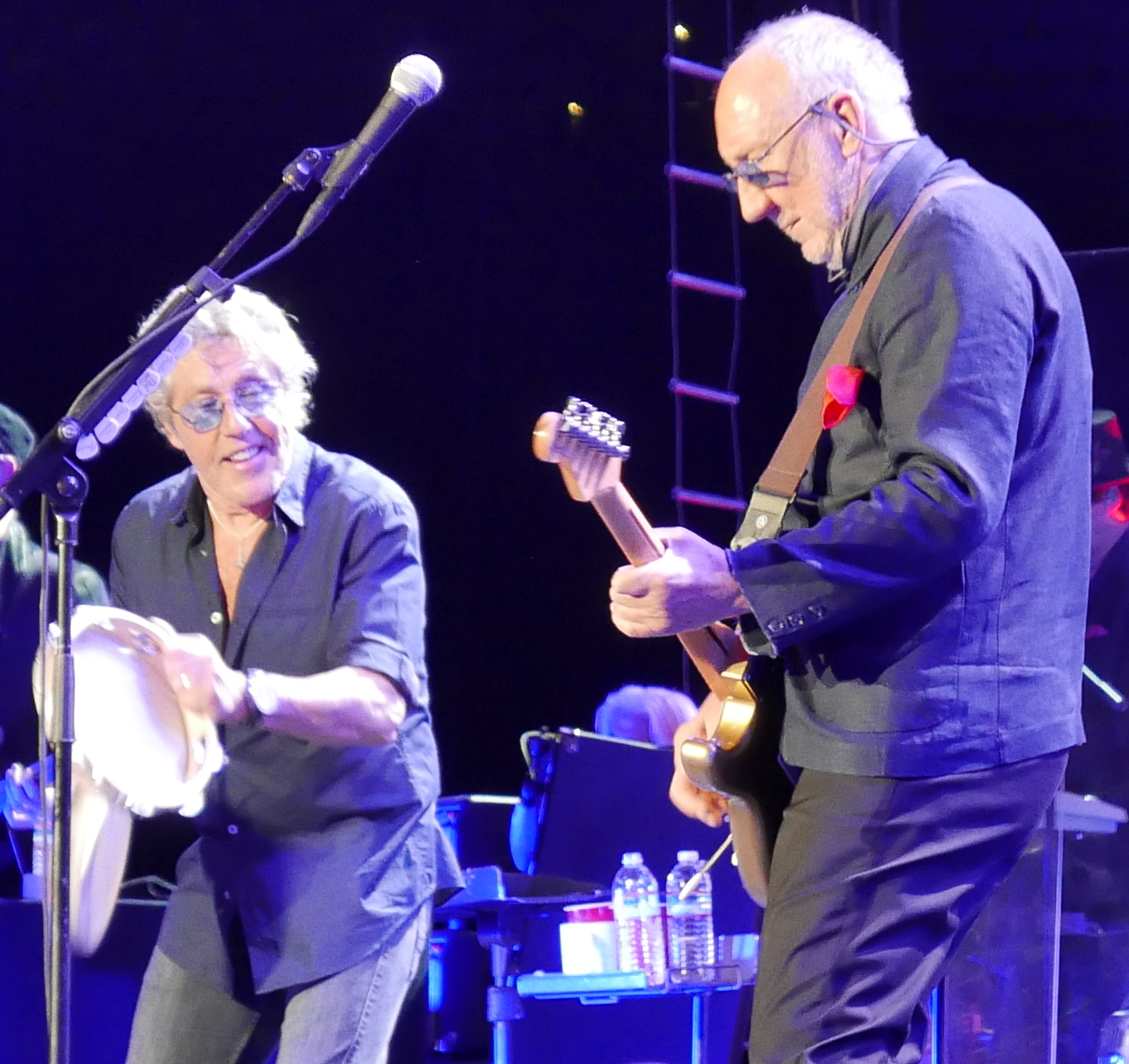 The Who performing at Oracle Arena, Oakland, CA, on May 19th, 2016.